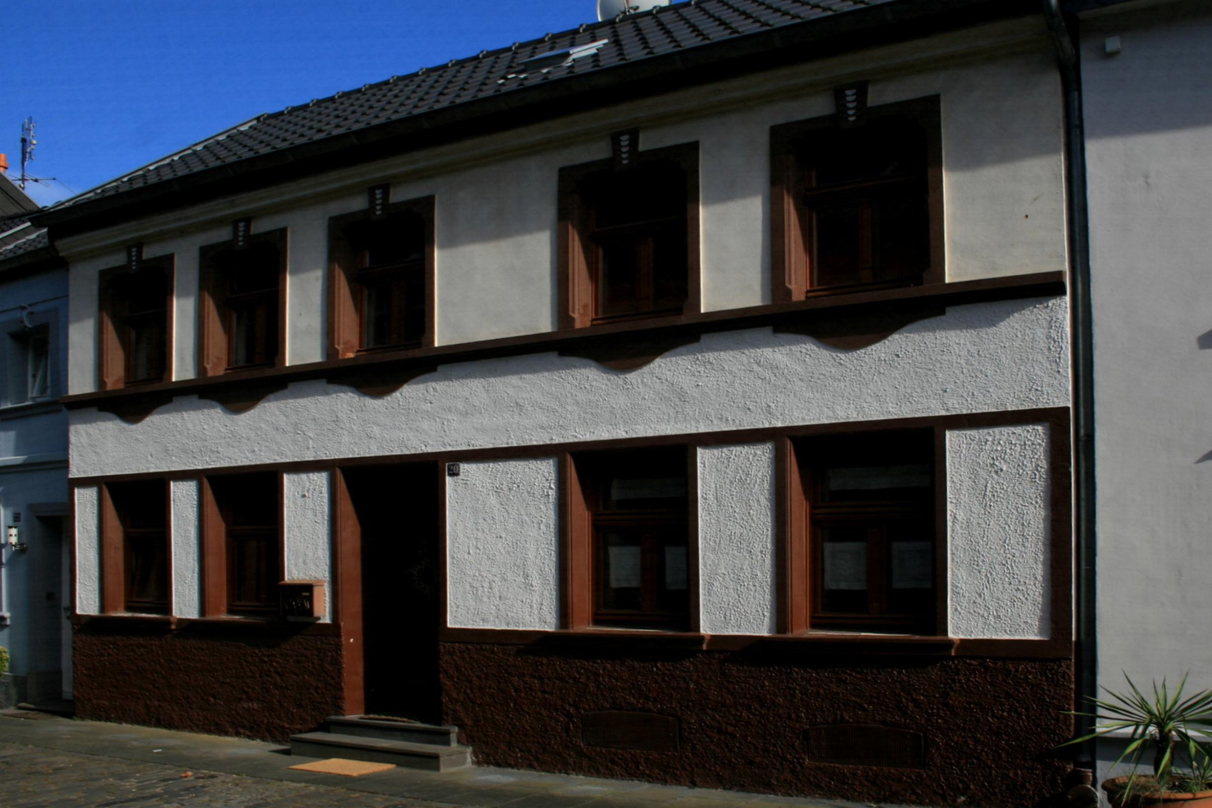 Cultural heritage monument No. St 018 in Mönchengladbach